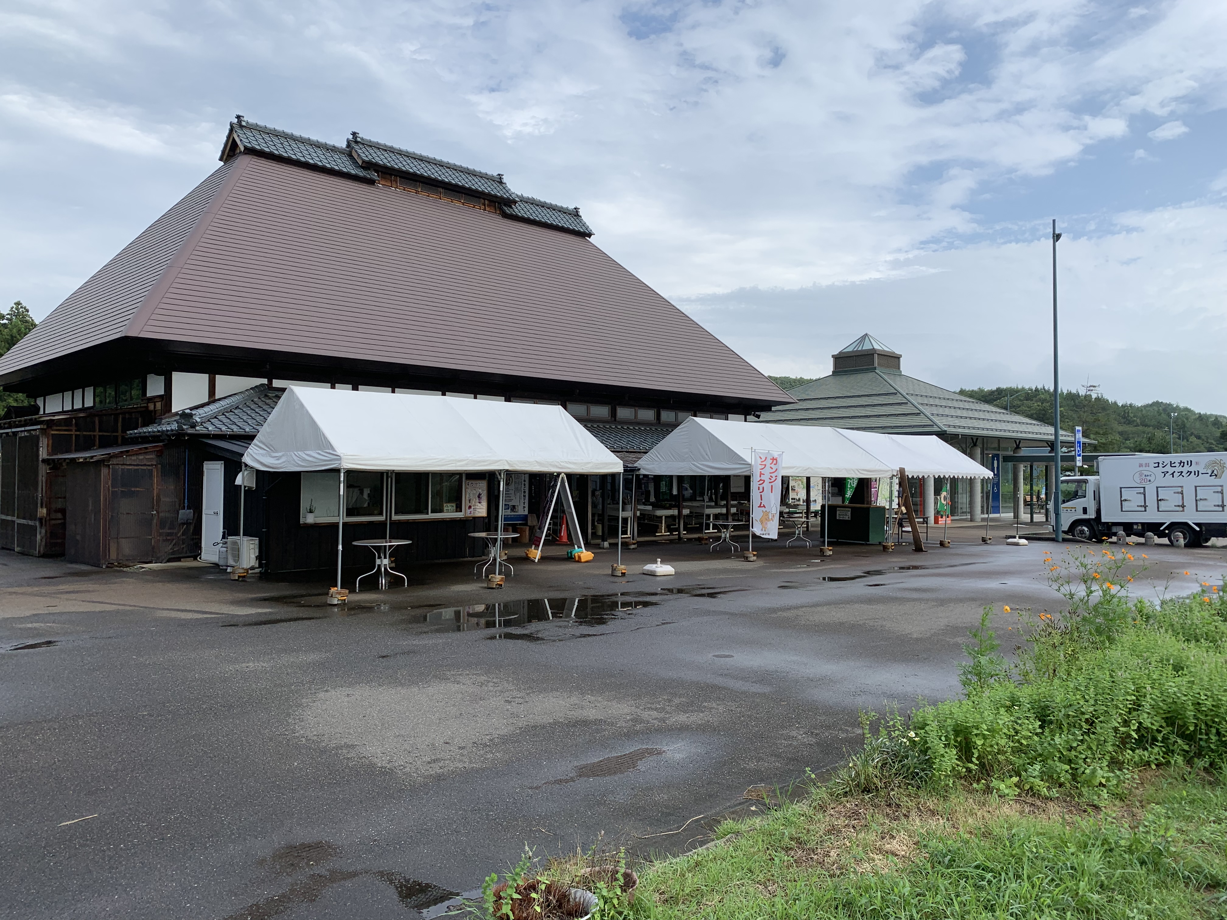 Ryokan no sato Washima, Roadside Station, Niigata, Japan. Took photo in August 2019.